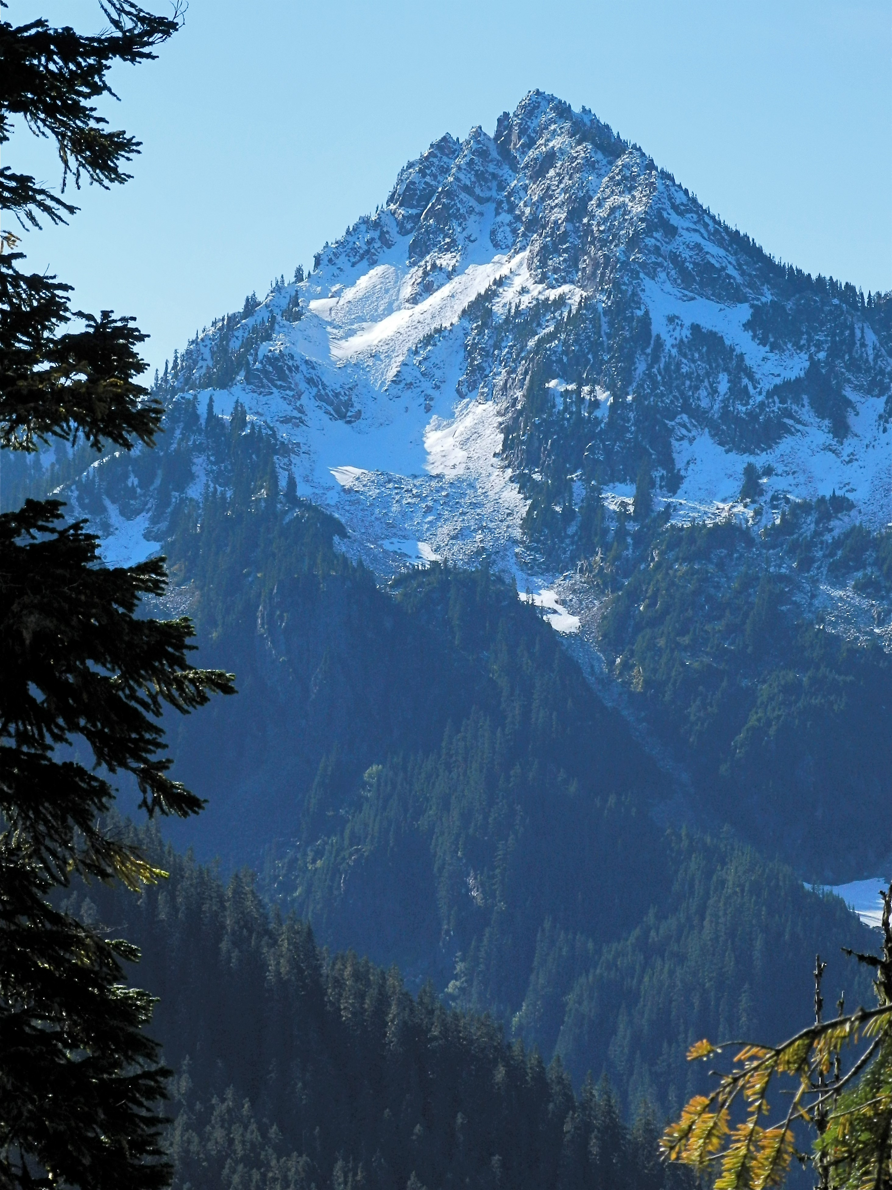 The smaller Mt. Fernow, 6190 feet, of Washington state. North aspect.